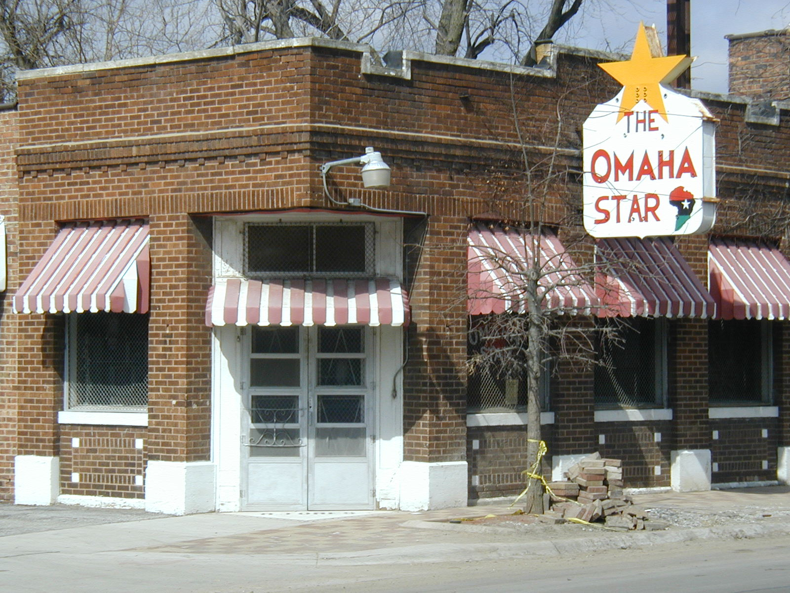 Omaha Star building taken from the SE corner of 24th & Grant St in Omaha